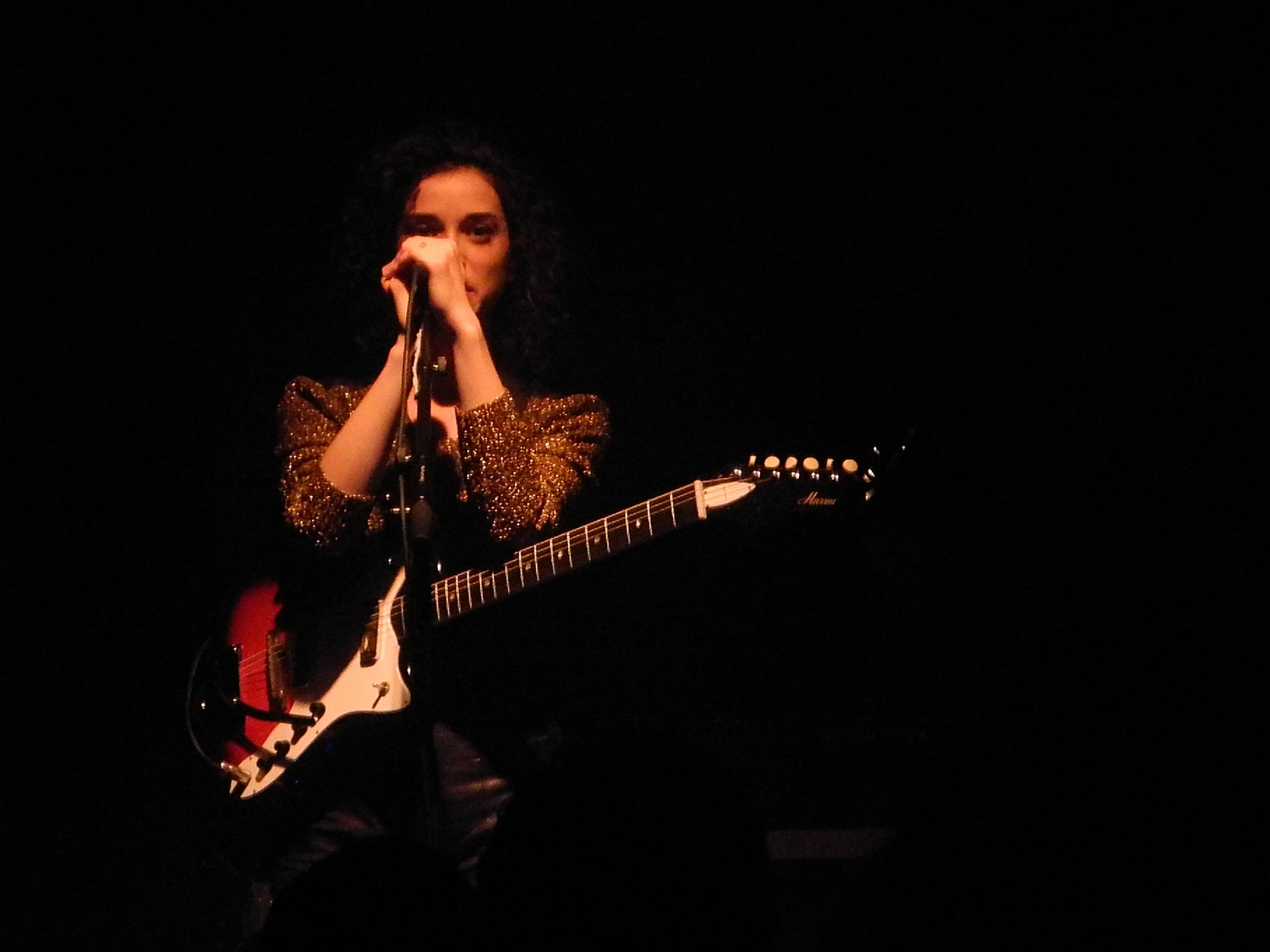 St Vincent at The Button Factory, Dublin.